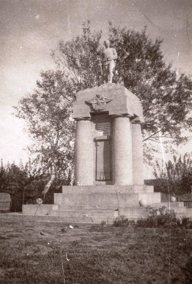 Monument in Negorci, photo from 1931 This media file is produced by Wikipedian in Residence in Category:Wikipedian in Residence at DARM in 2016.